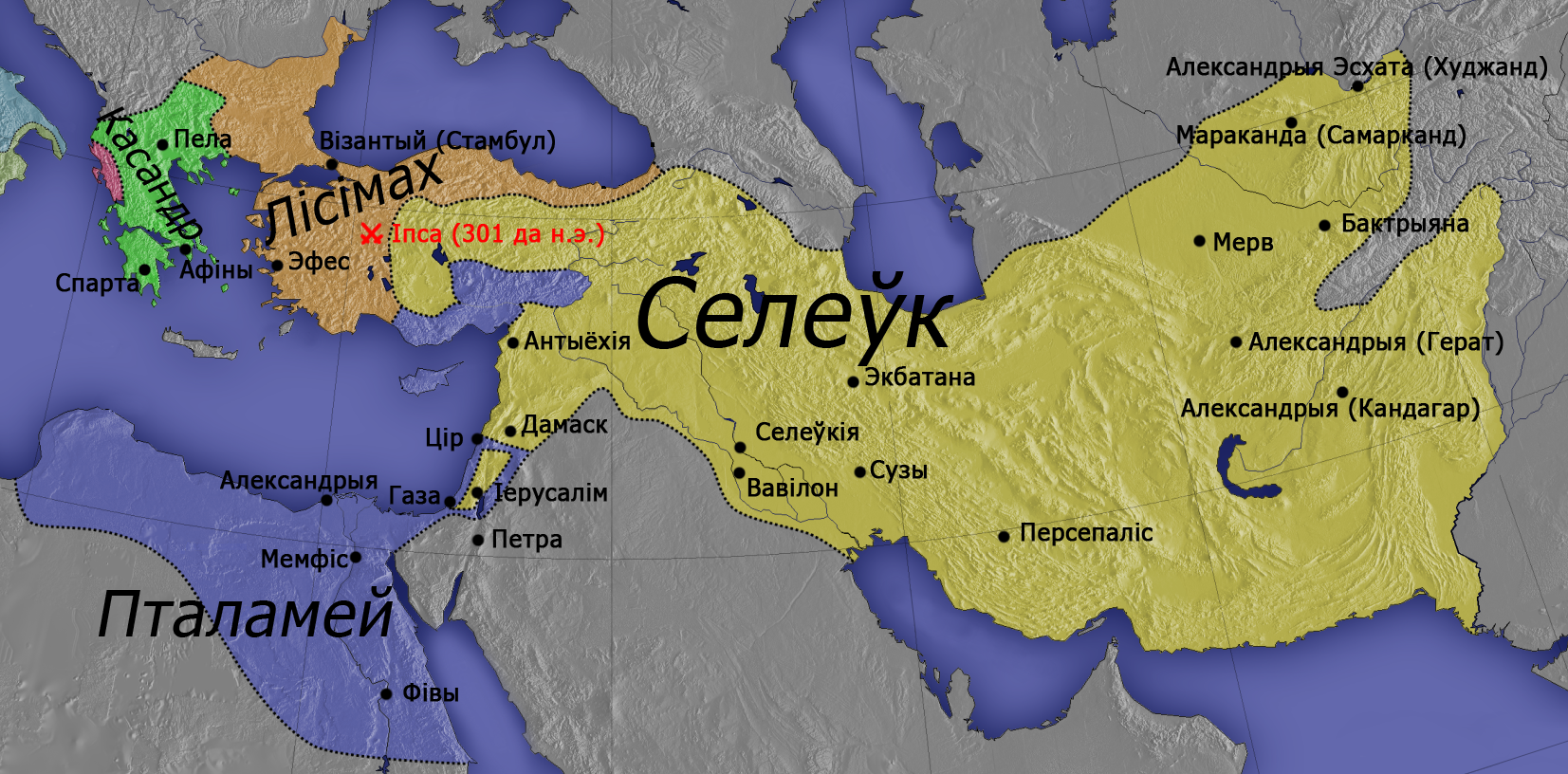 Division of Alexander the Great's empire after 301 BC, in Belarusian